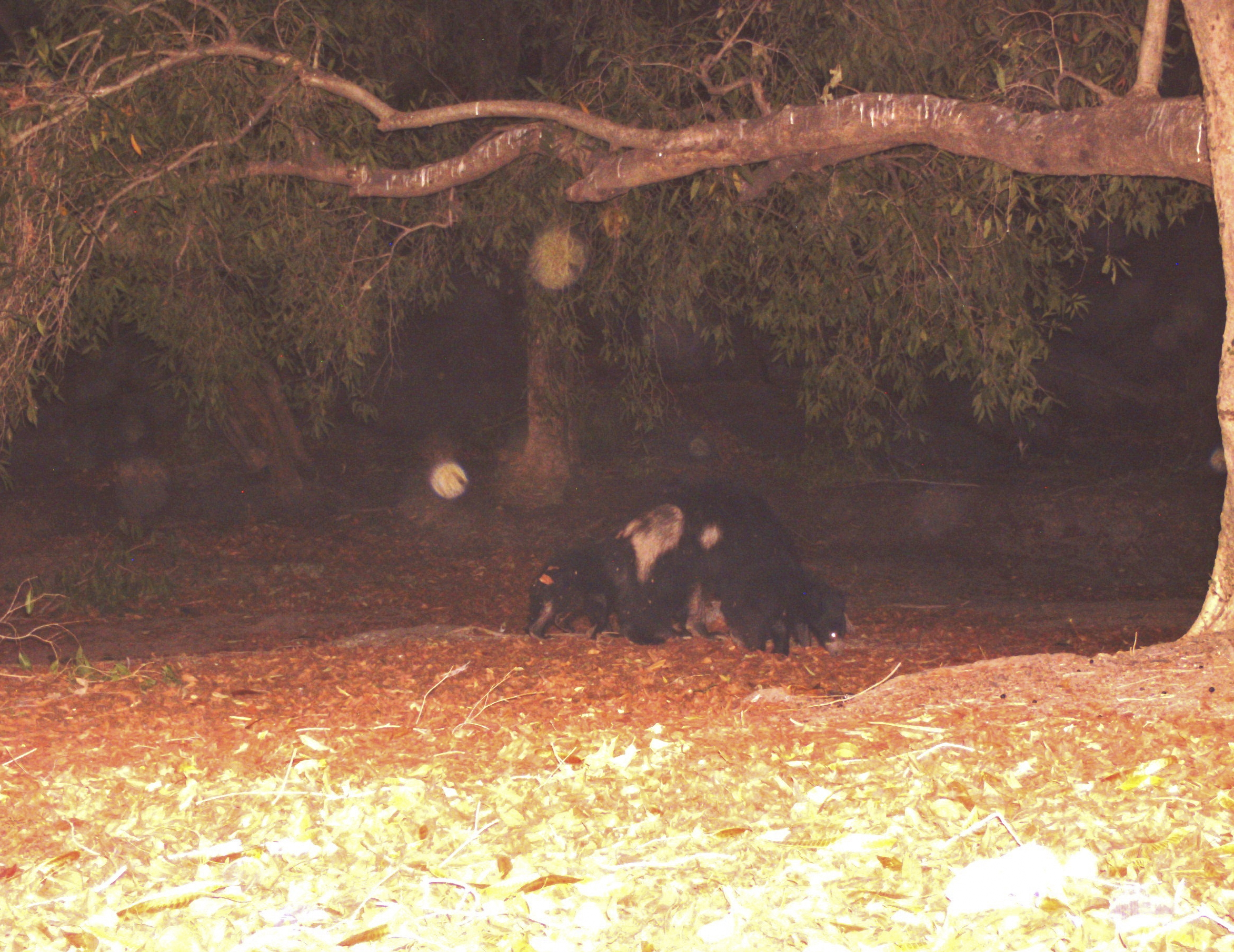 Female Sloth Bear with color aberration/ white patch on back along with her two cubs. Camera trap image from Dahod District of Gujarat State, India Sloth bear with such uncommon fur/coat is photographed/recorded first time for bear from Indian Sub-continent